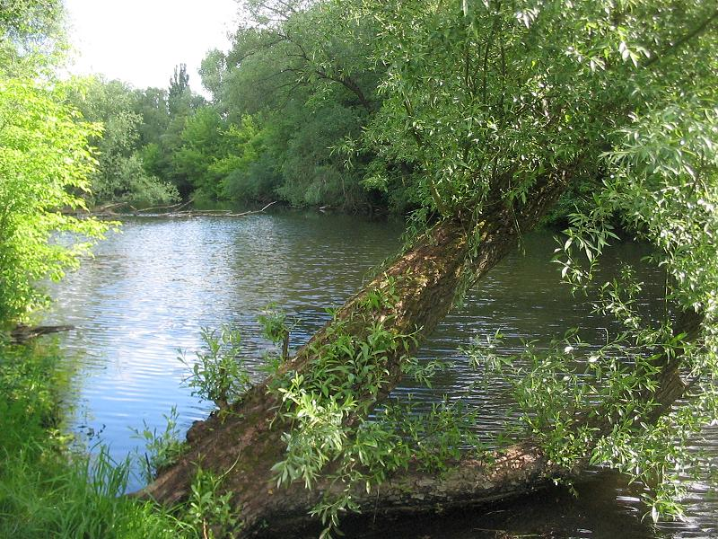 Fauler See (lake) at the ait Tiefwerder. Tiefwerder is a former village, founded in 1816, in Berlin-Spandau and an ait in Berlin-Wilhelmstadt from river Havel. The Tiefwerder Wiesen (meadows) are a protected area (german: Landschaftsschutzgebiet) and Berlins last natural flood plain and last spawn-area for the Northern pike.